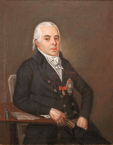 Portrait of Joaquim Pedro Quintela, 1st Baron of Quintela (1748-1817).